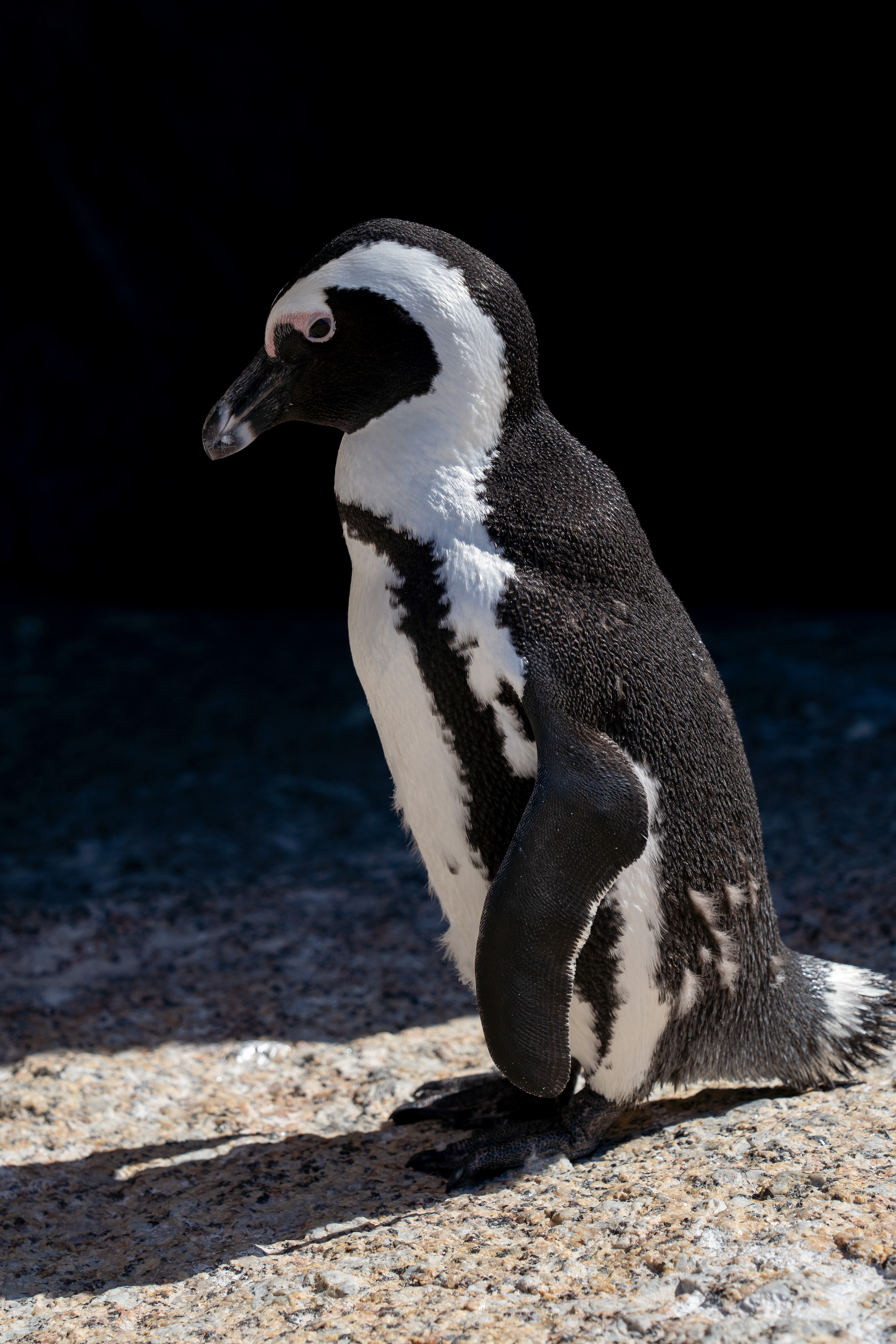 Banded Penguin at Boulders Beach, South Africa